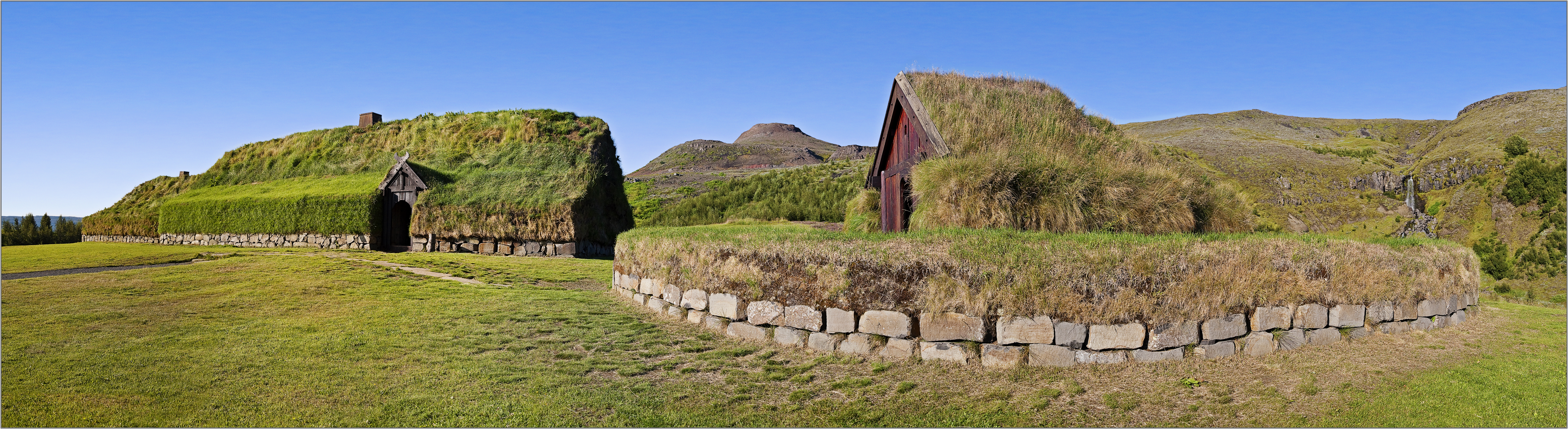 Iceland, Thjodveldisbaer